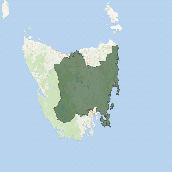 Electoral boundaries from Administrative Boundaries [May 2016] ©PSMA Australia Limited licensed by the Commonwealth of Australia under Creative Commons Attribution 4.0 International licence (CC BY 4.0): Background map layer and image thumbnail generated by Wikimedia maps; Creative Commons Attribution-ShareAlike 4.0 International licence (CC BY-SA 4.0).